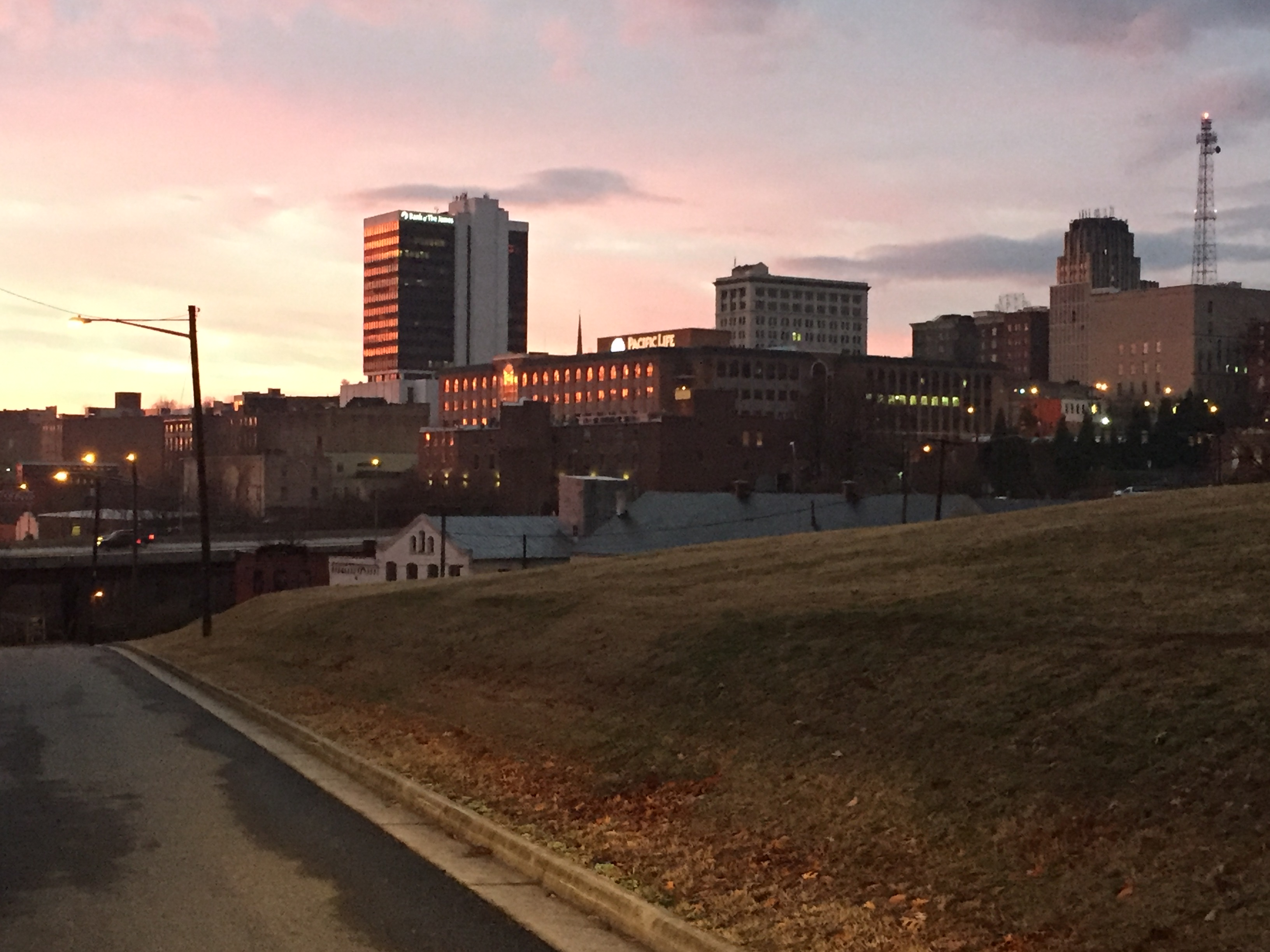 Downtown Lynchburg from Daniel's Hill at Point of Honor